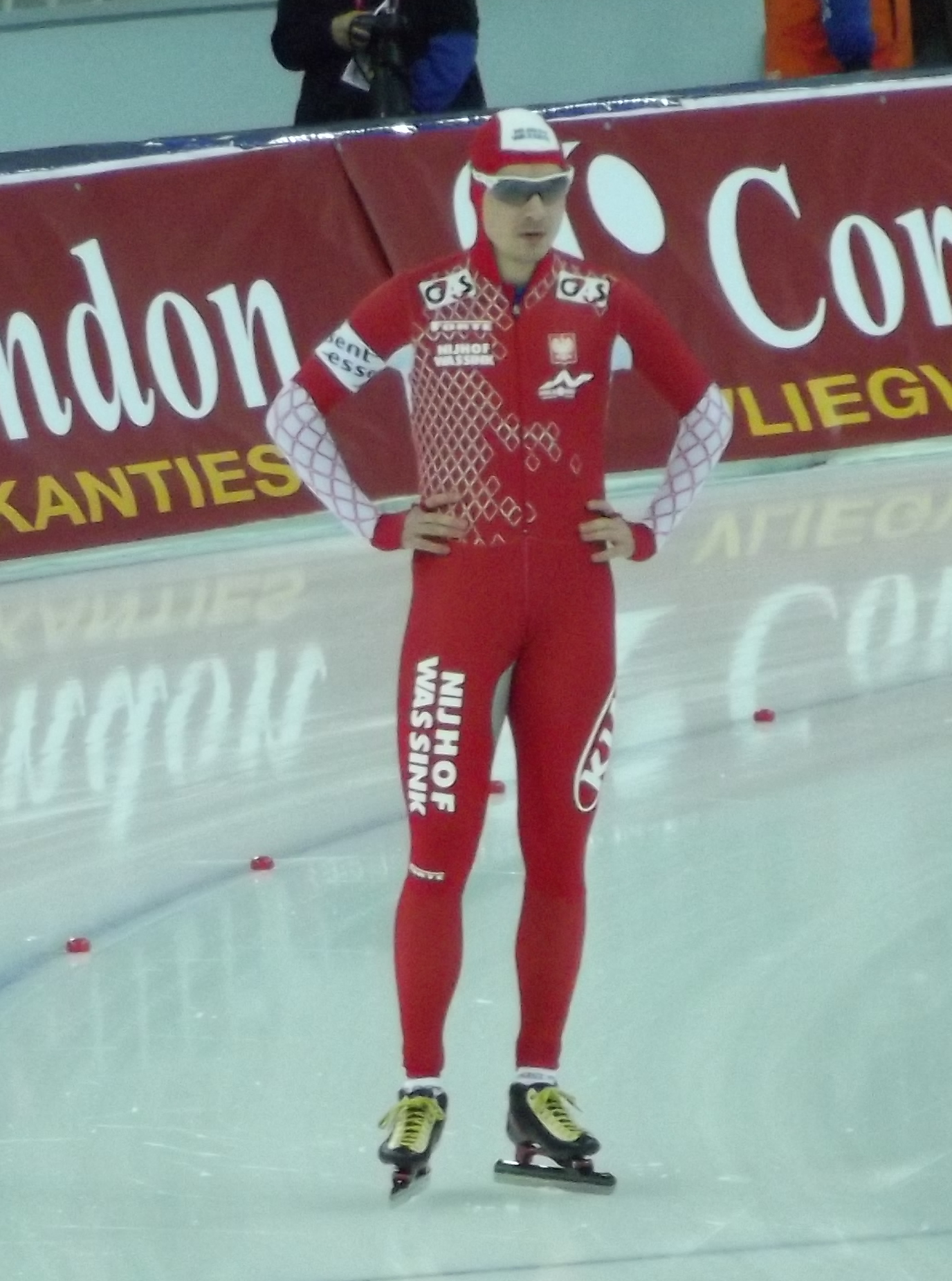 2013 World Single Distance Speed Skating Championships